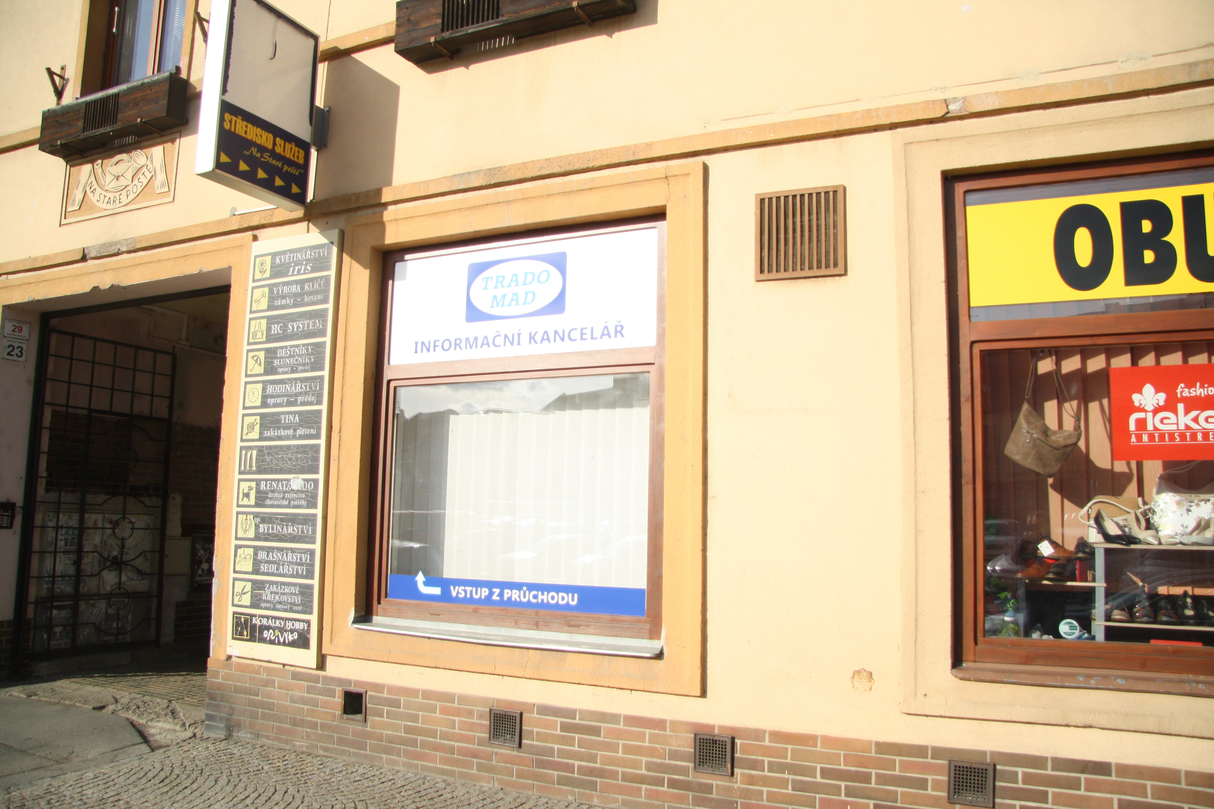 Information center of TRADO MAD in Třebíč, Třebíč District.